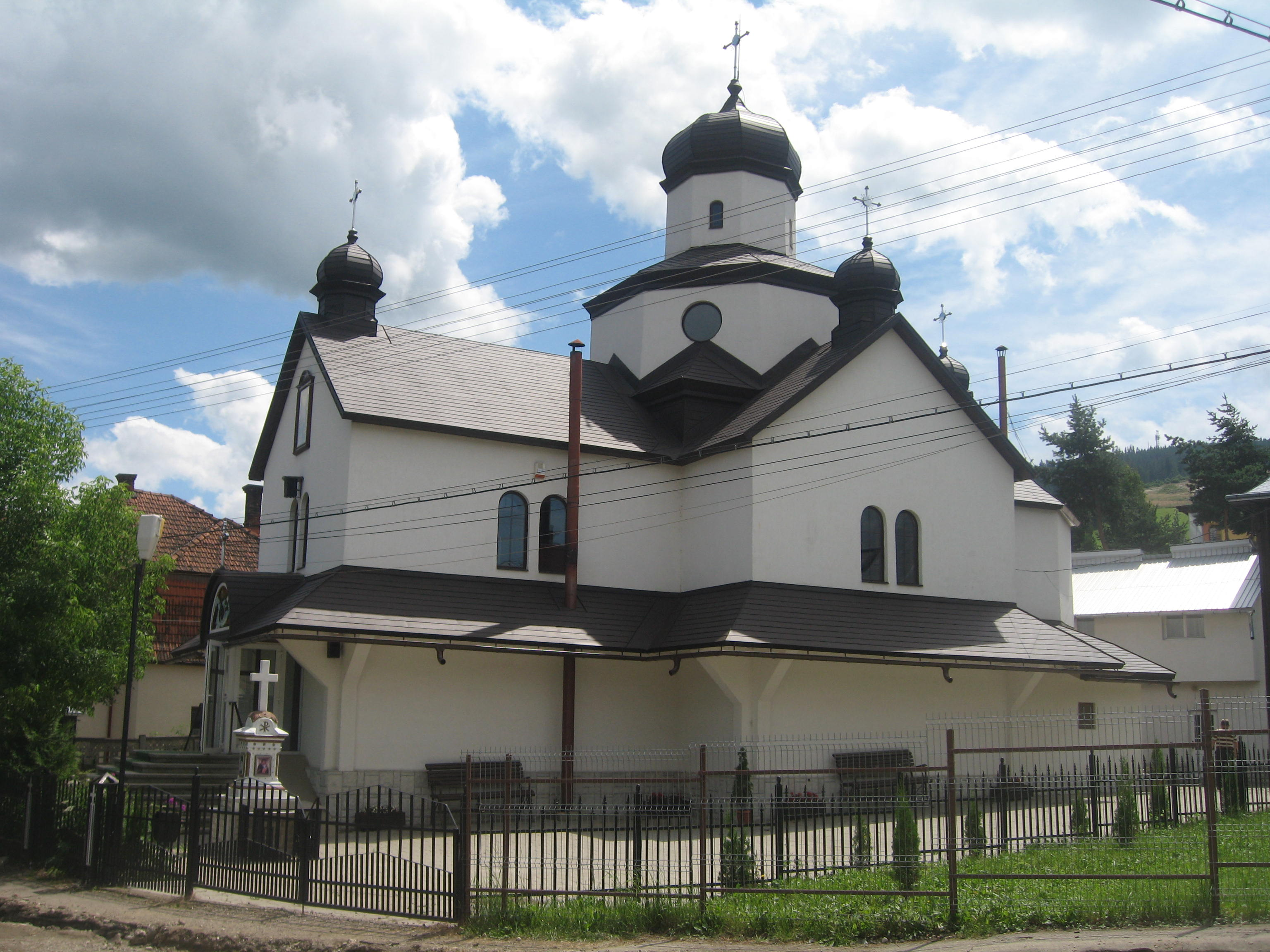 St. Elias Church in Vatra Dornei, Romania